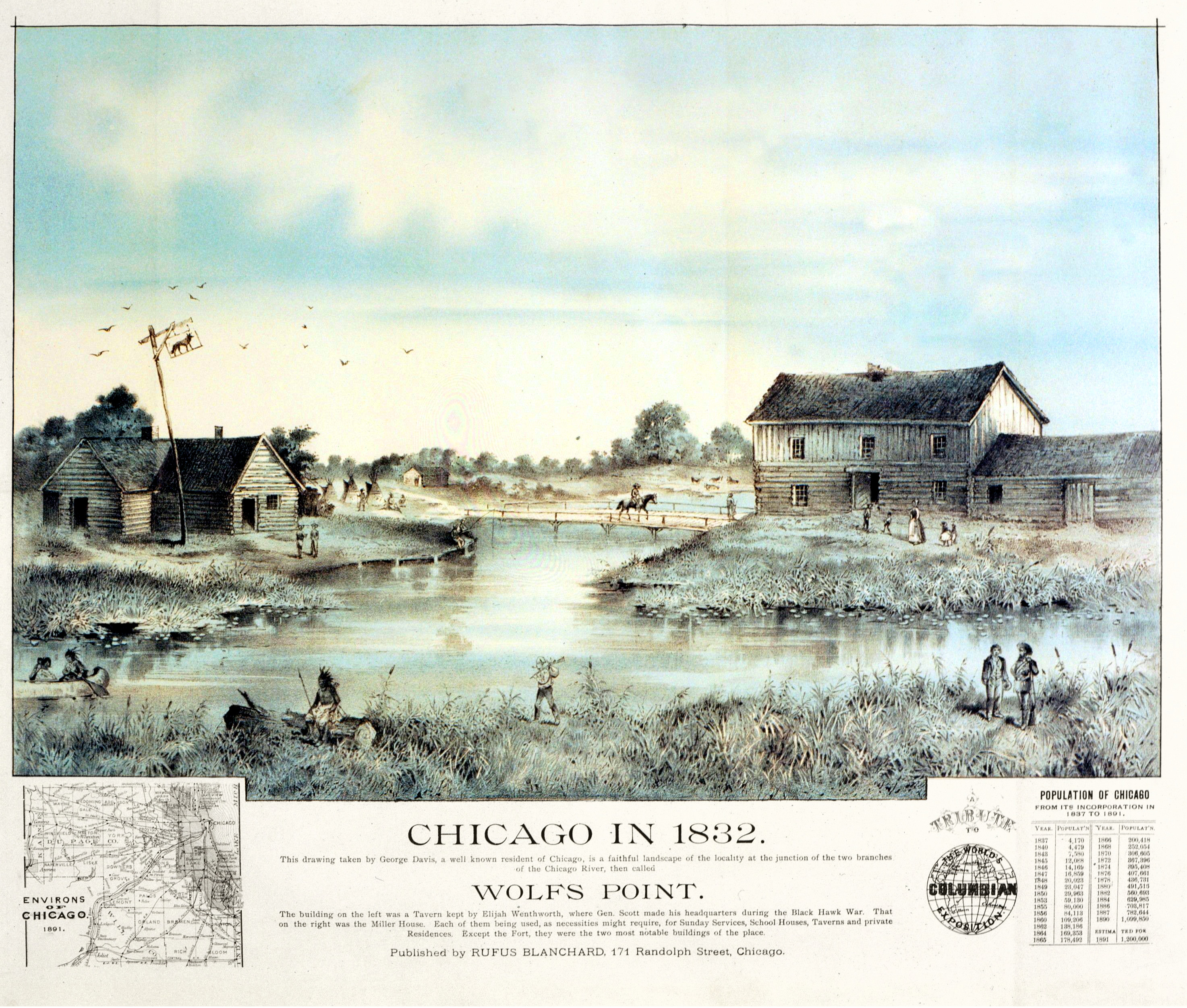 This image was published in 1893 when Chicago had a population of more than a million people. A caption at the bottom reads: “This drawing taken by George Davis, a well known resident of Chicago, is a faithful landscape of the locality at the junction of the two branches of the Chicago River, then called Wolf's Point. The building on the left was a Tavern kept by Elijah Wentworth, where Gen. Scott made his headquarters during the Black Hawk War. That on the right was the Miller House. Each of them being used, as necessities might require, for Sunday Services, School Houses, Taverns and private residences. Except the Fort, they were the two most notable buildings of the place.”